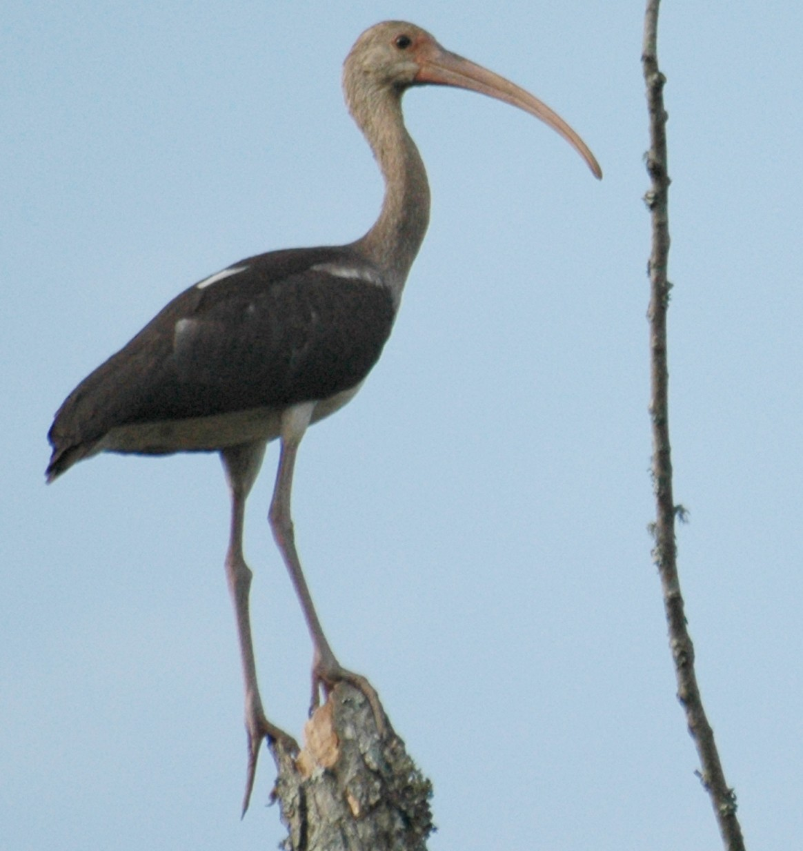 Juvenile White Ibis (Eudocimus albus), spotted on birding tour w/ Carol Lambert based out of the Newman Wetlands Center, Hampton, GA. These birds are known as opportunistic thieves, stealing food from other wading birds....